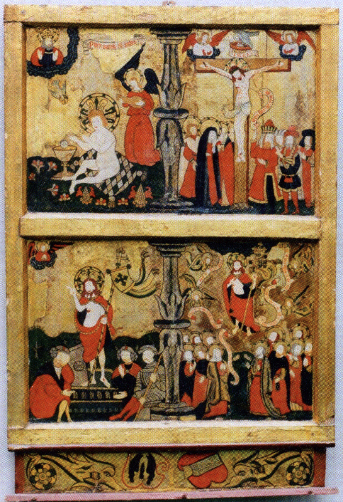 Mediation panel 1 from Kloster Ribnitz, c. 1525